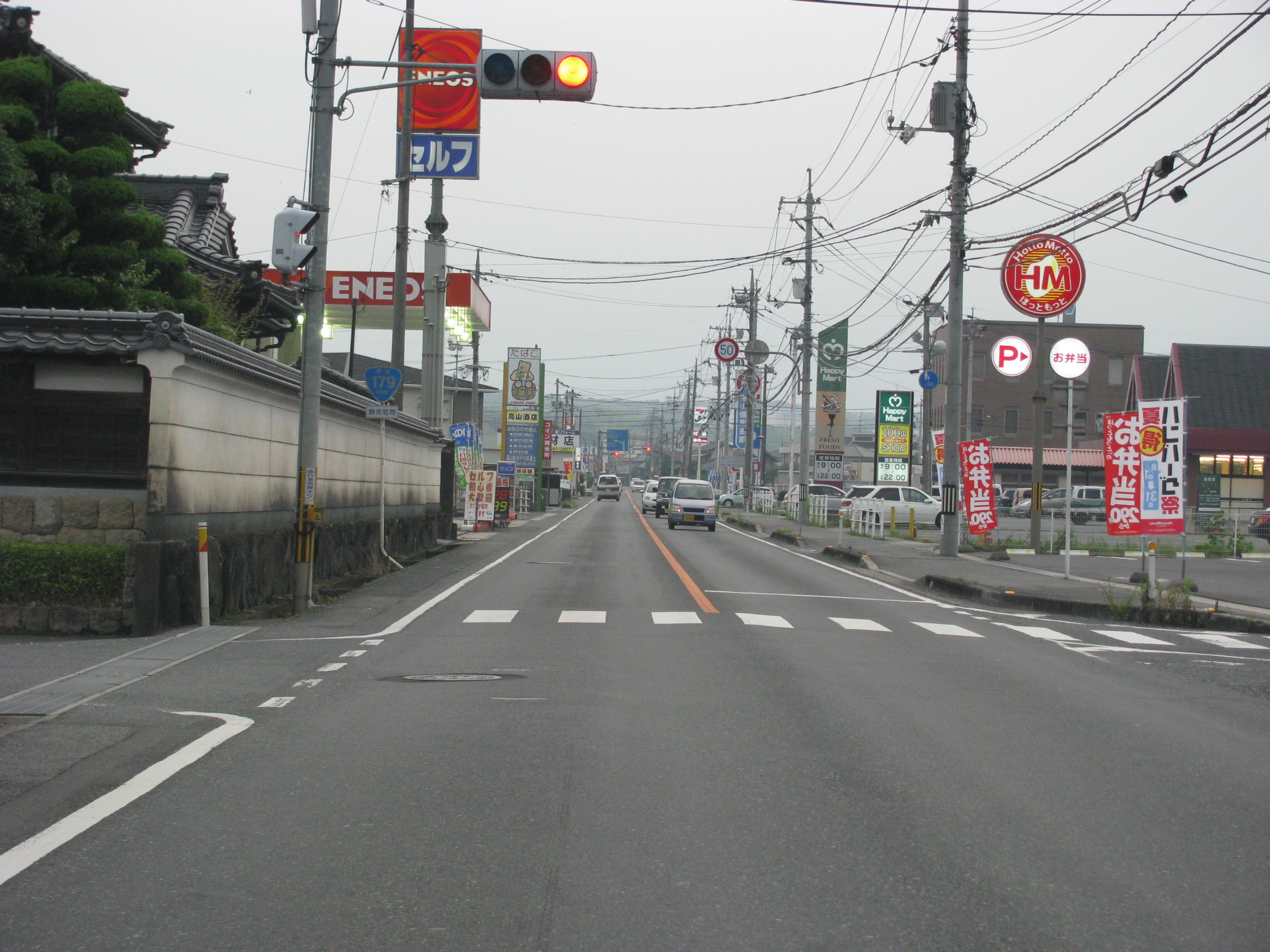 The Japan National Route 179. This place is Shōō, Katsuta District, Okayama Prefecture, Japan.